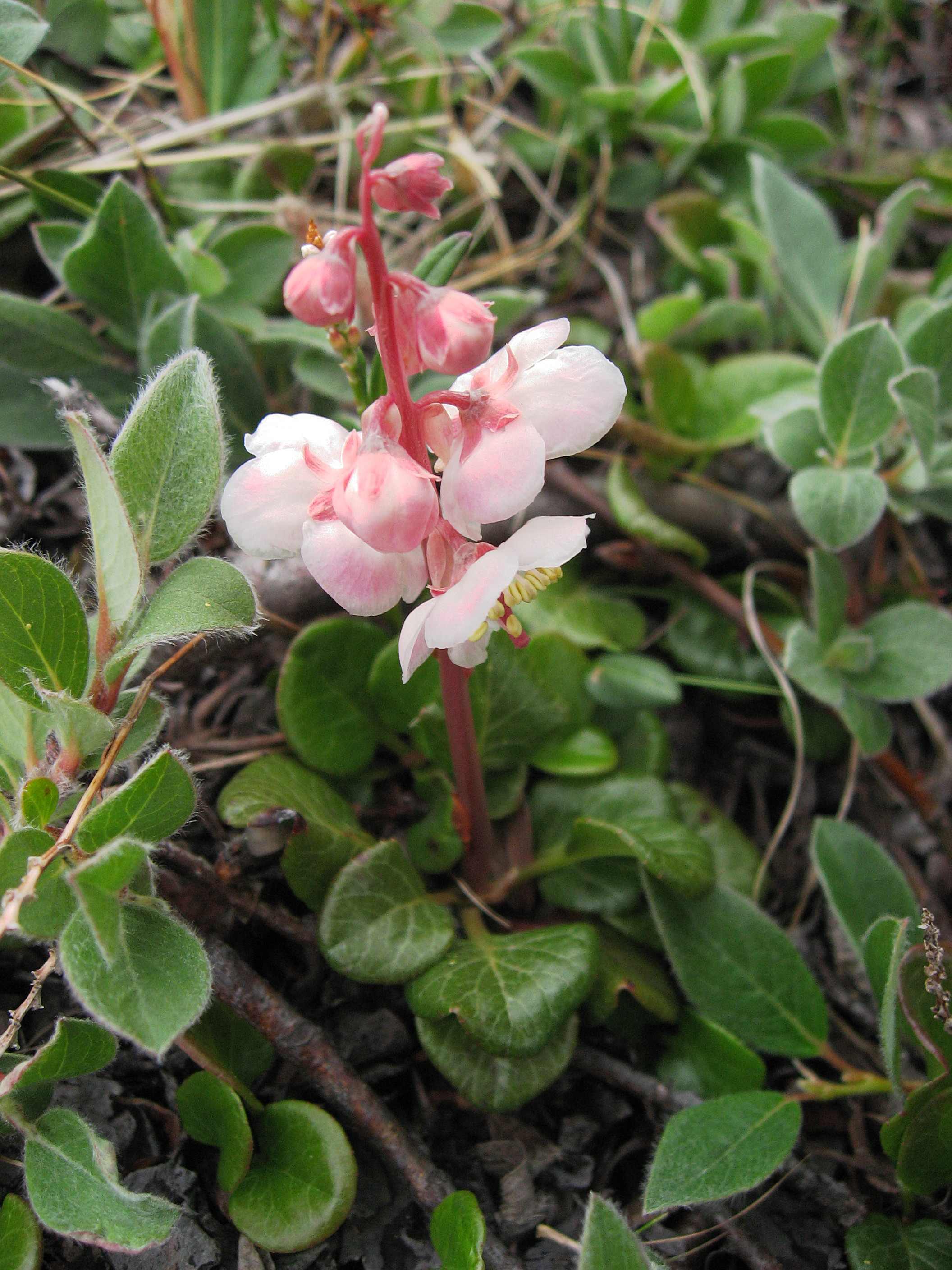 Pyrola grandiflora (Largeflowered Wintergreen) in Upernavik, Greenland.